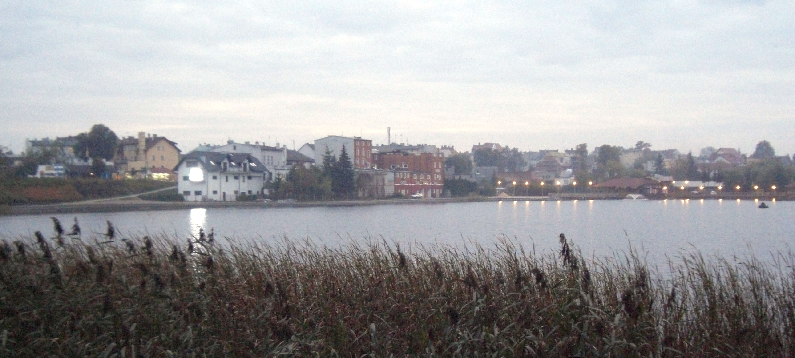 Sępólno Krajeńskie